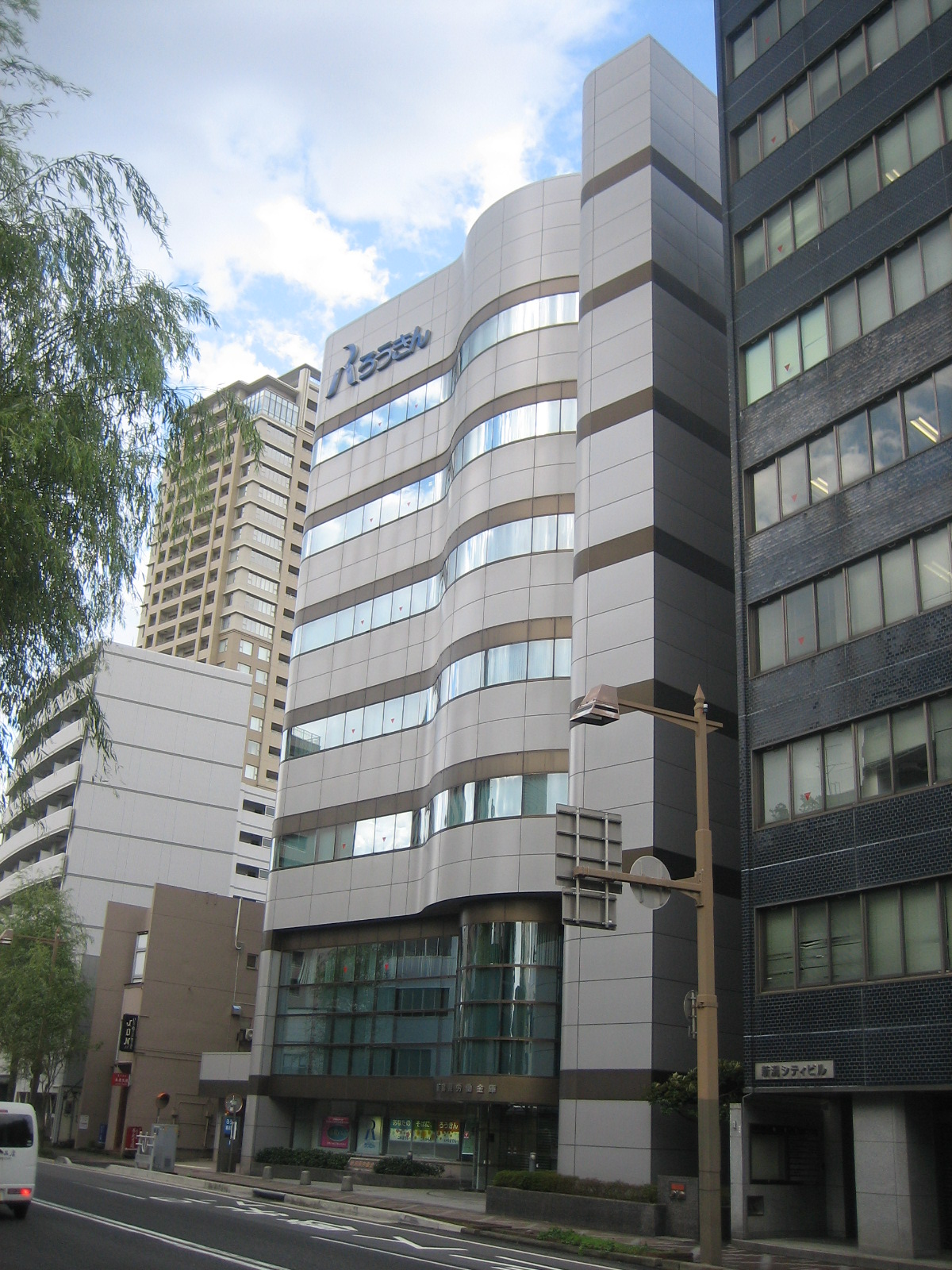 Niigata-ken worker's credit union